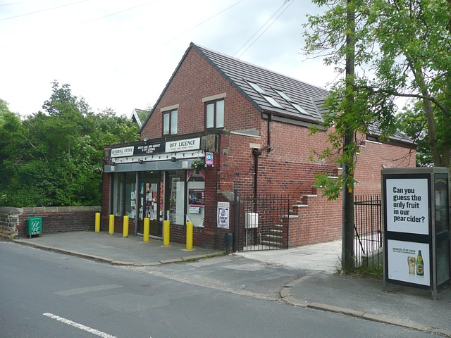 Shop, Moor Lane, Birlenshaw With a flat upstairs. There is evidently a worry about ram-raiders. The telephone kiosk on the right possibly makes more from the advertisers that from the customers.